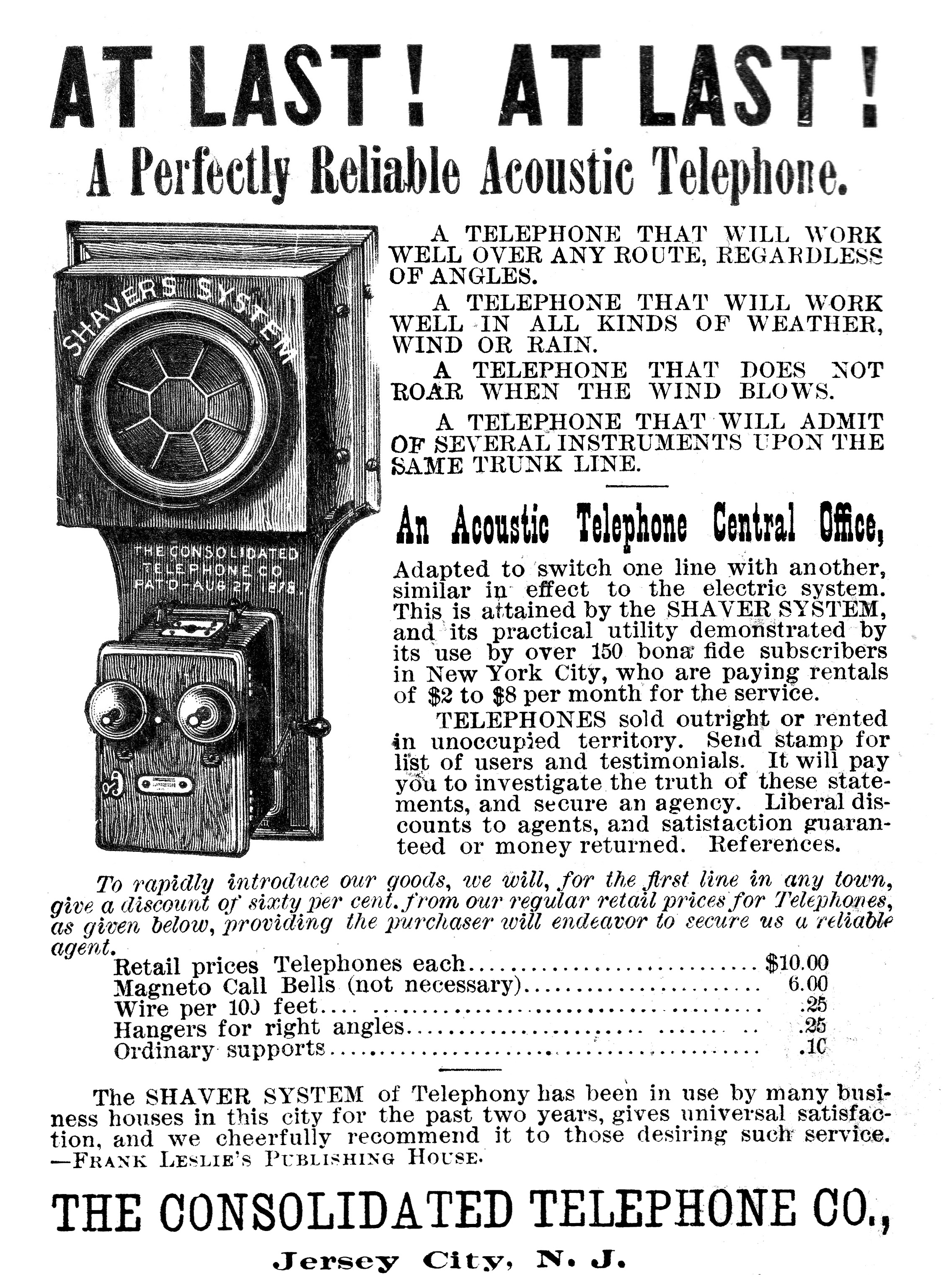 Advertisement for an acoustic telephone system by the Consolidated Telephone Co., Jersey City, NJ 1886